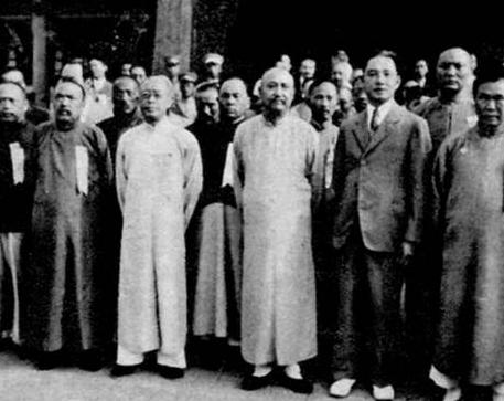 Yan Xishan with Wang Jingwei in Beijing.